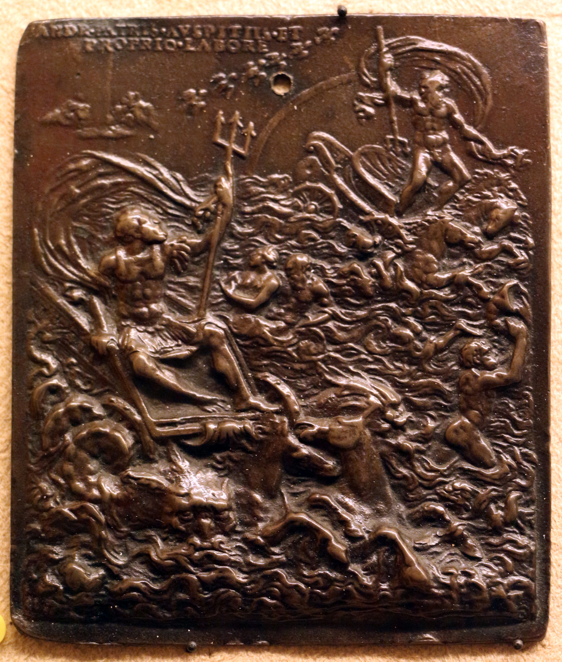 Coins and medals in the National Museum of Finland